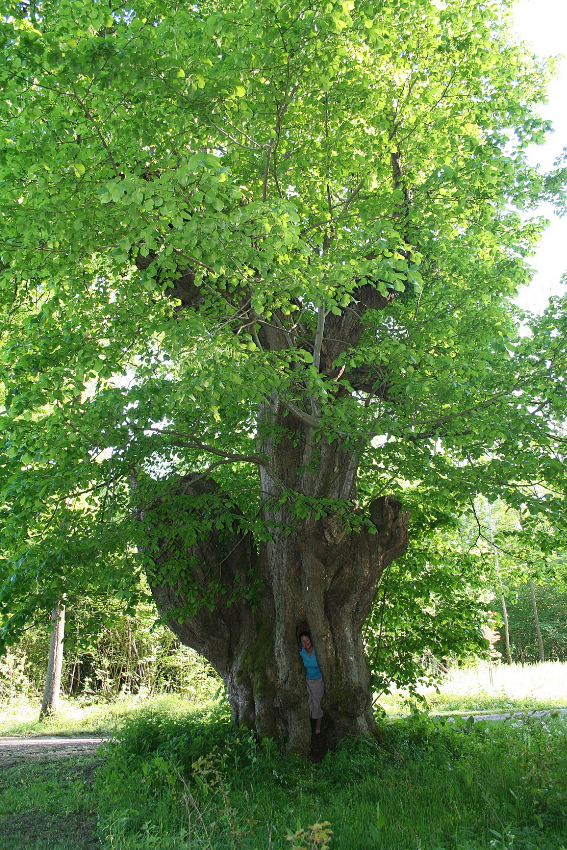 Large-leaved Lime (Tilia platyphyllos)